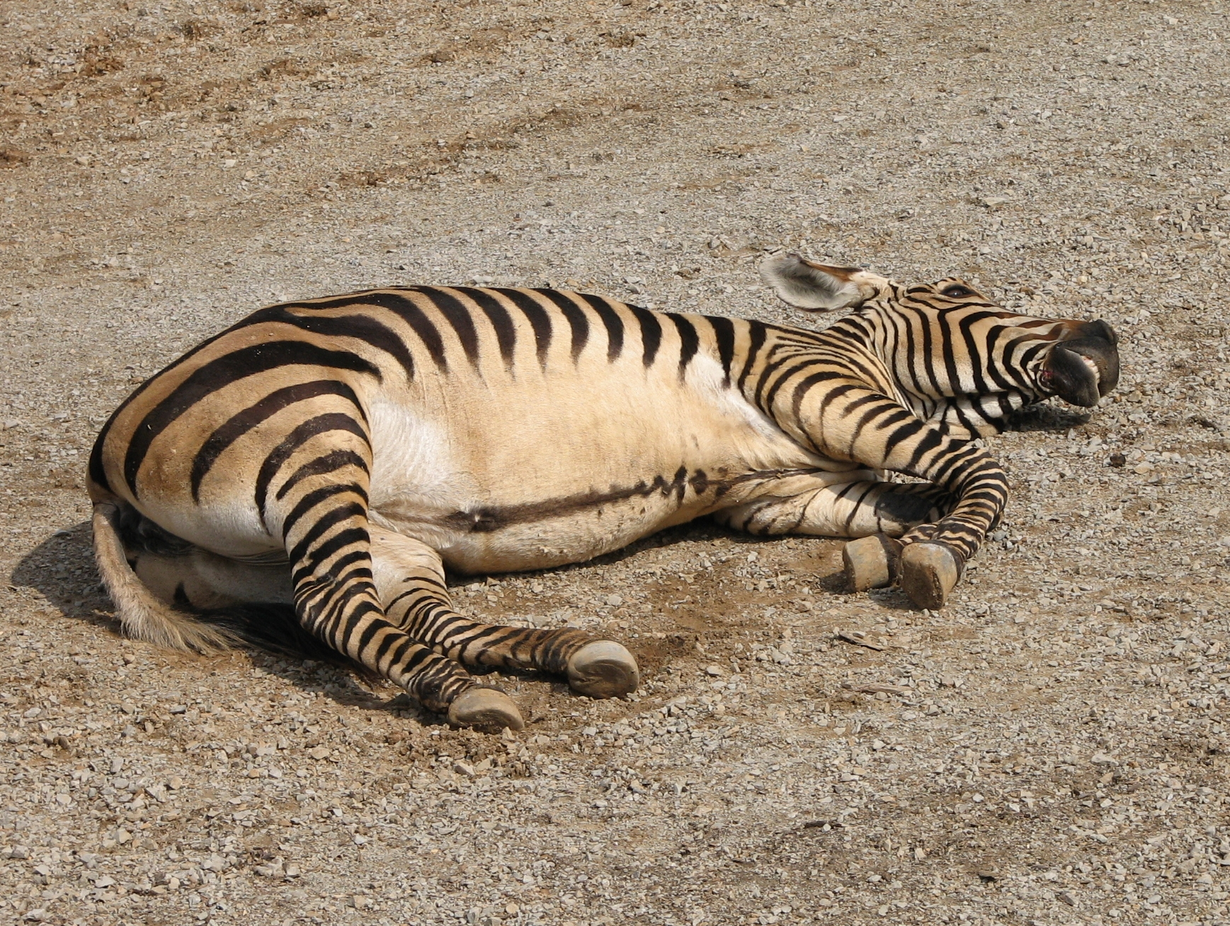 Hartmann's Mountain Zebra resting in the sun, in Louisville Zoo.